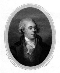 Portrait of George Monck Berkeley (1763–1793), English writer.